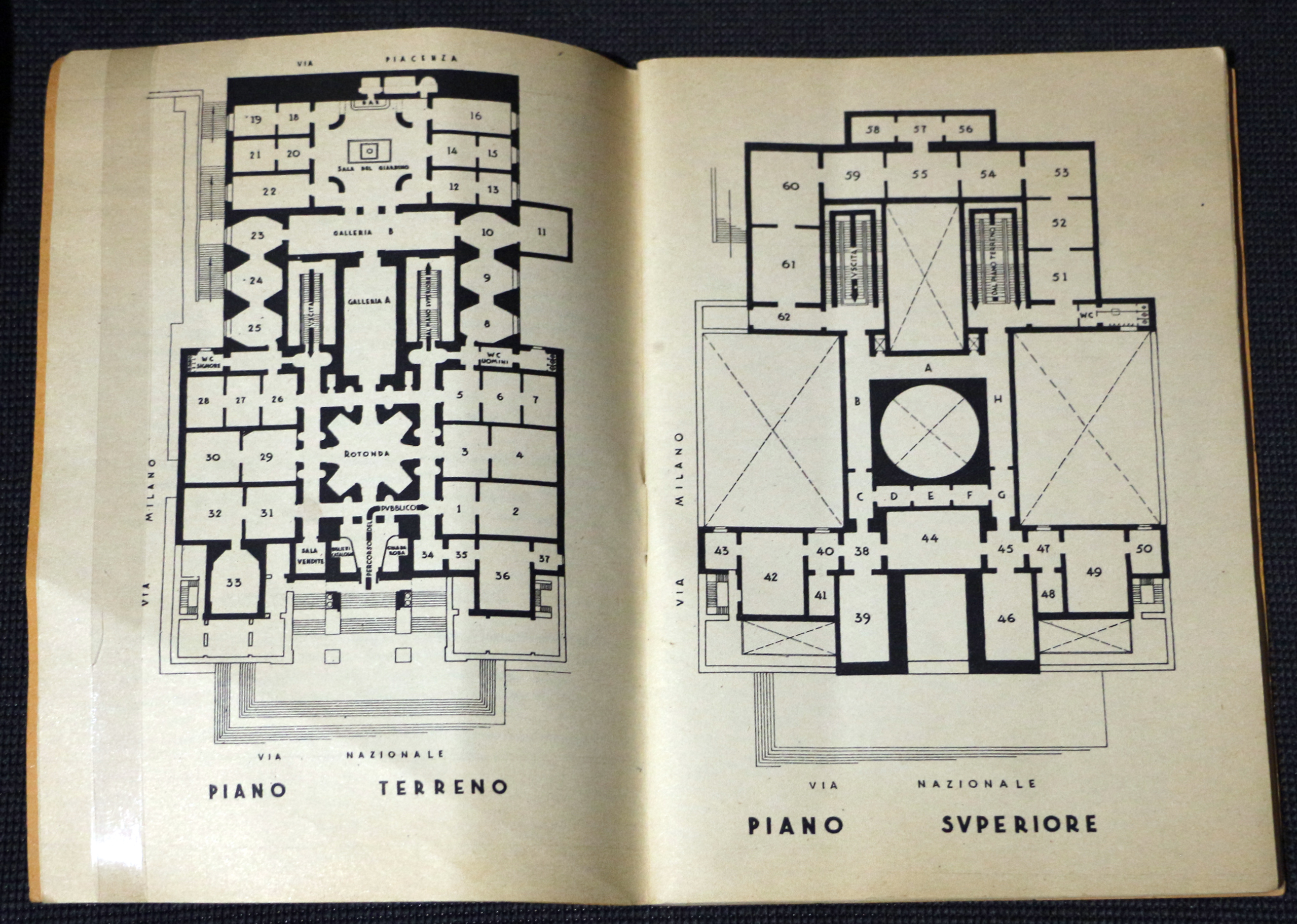 Collections of the Galleria d'arte moderna di Roma Capitale